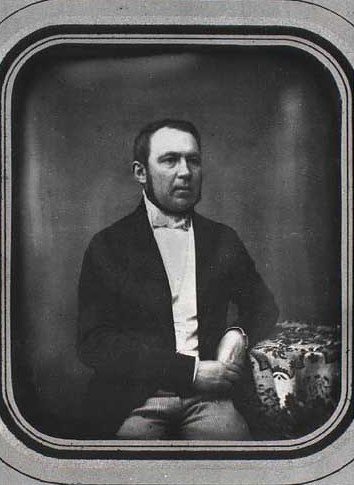 Carl Johan Henrik Kayser (1811-1870), Danish physician and politician, MP